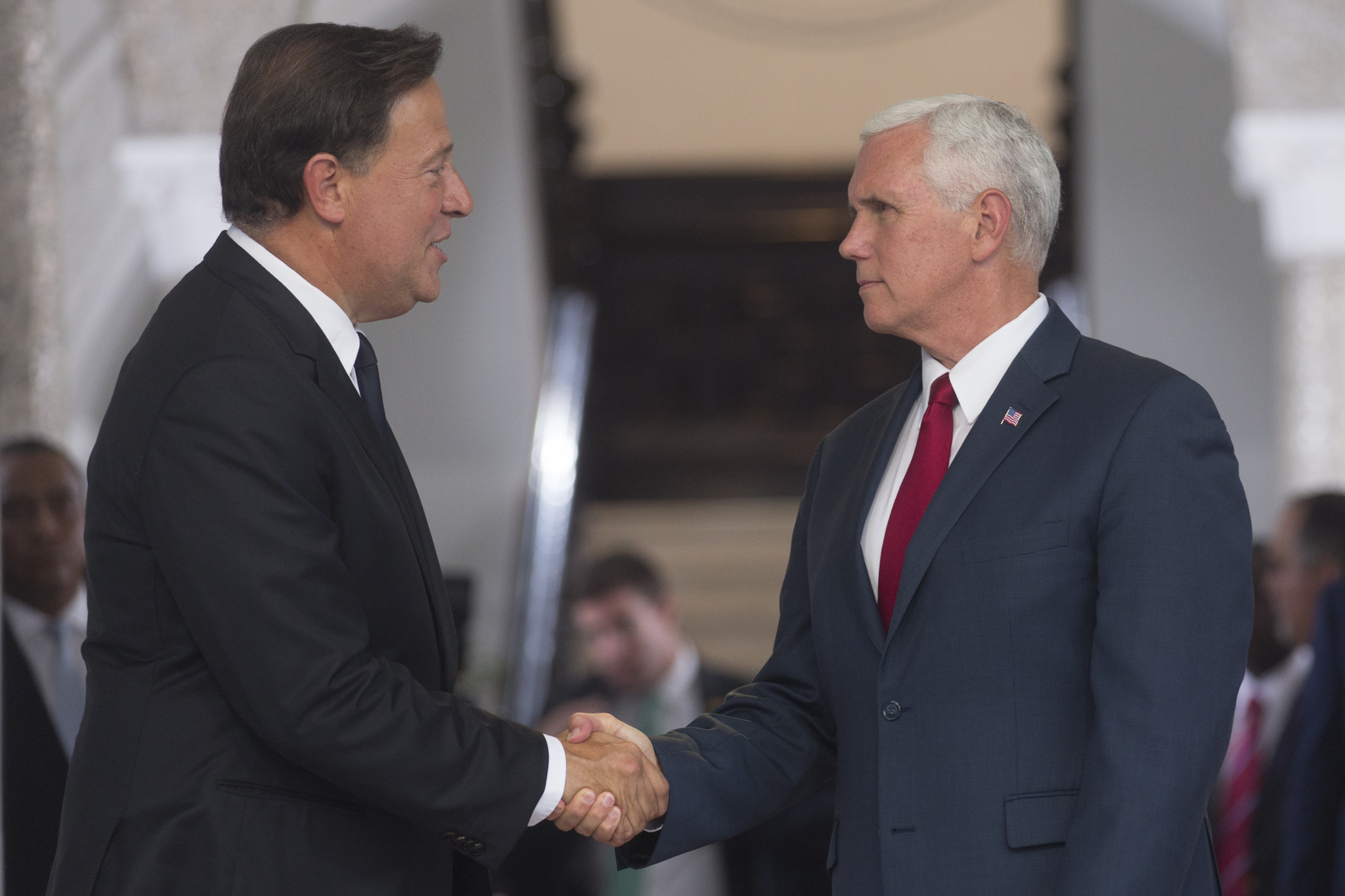 Vice President Mike Pence and the President of Panama, Juan Carlos Varela, meet in Panama City, Panama